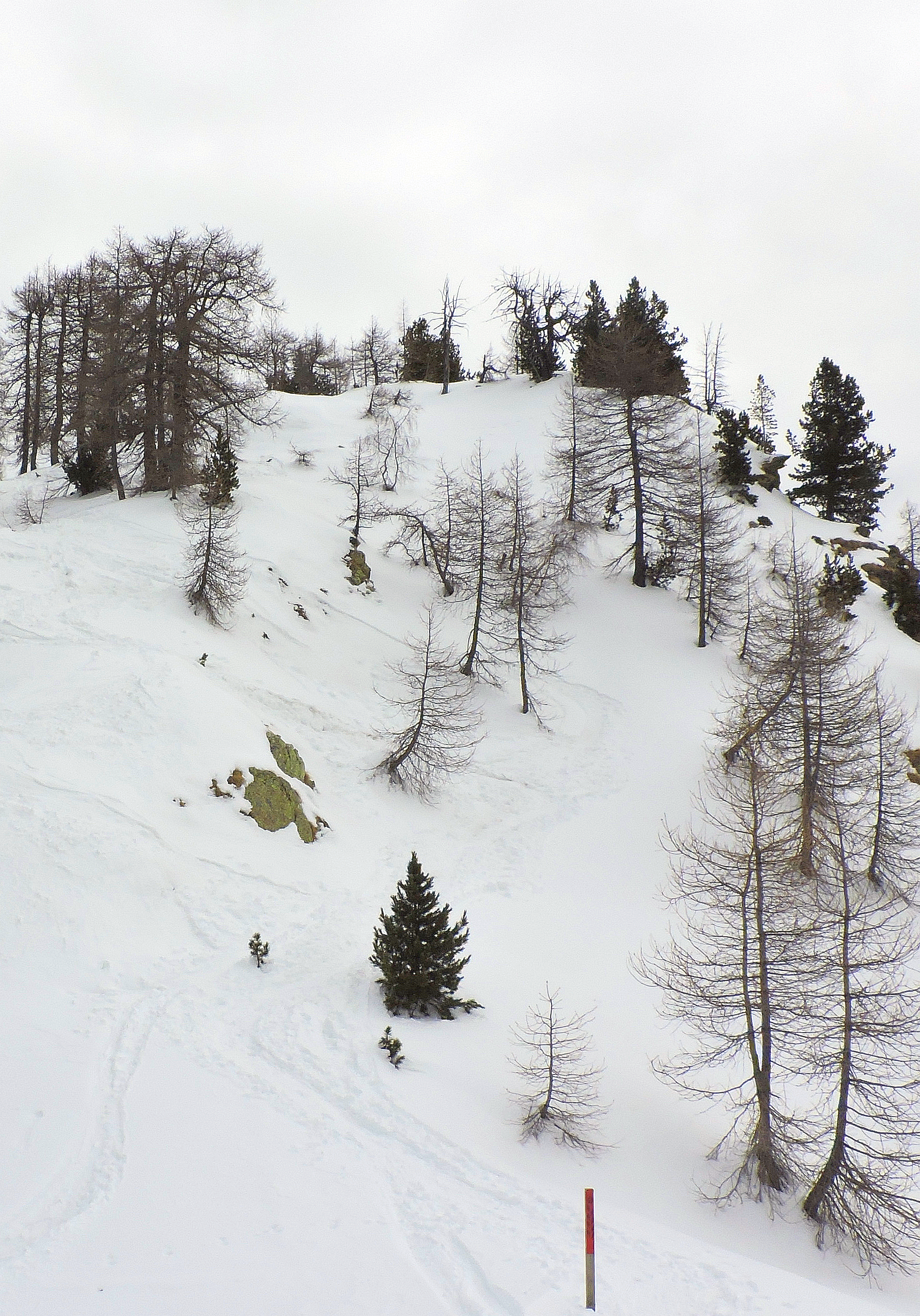 Punta Leretta (AO, Italy): eastern summit (1997 m)